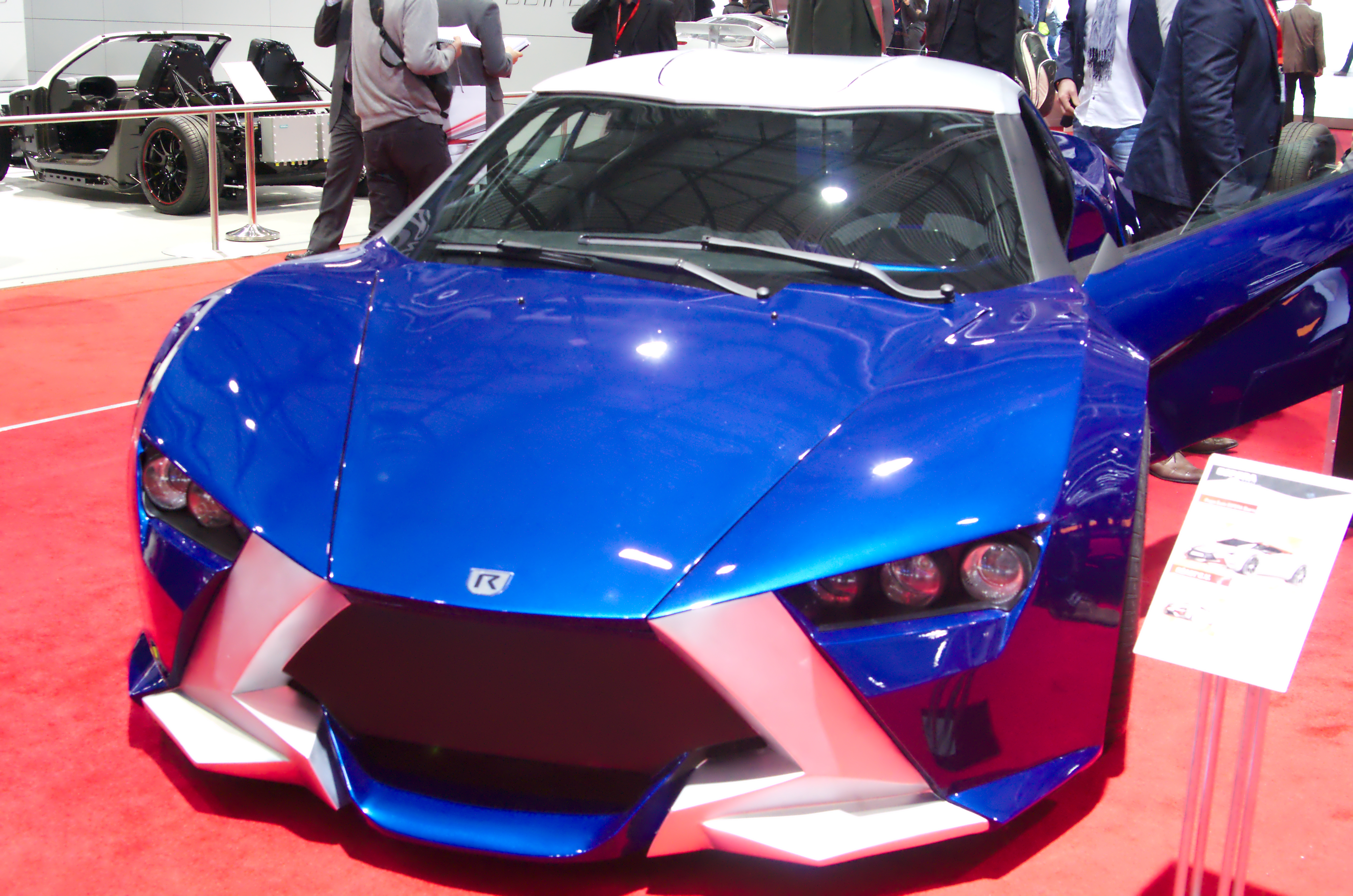 Geneva MotorShow 2013 - Sbarro React’ev